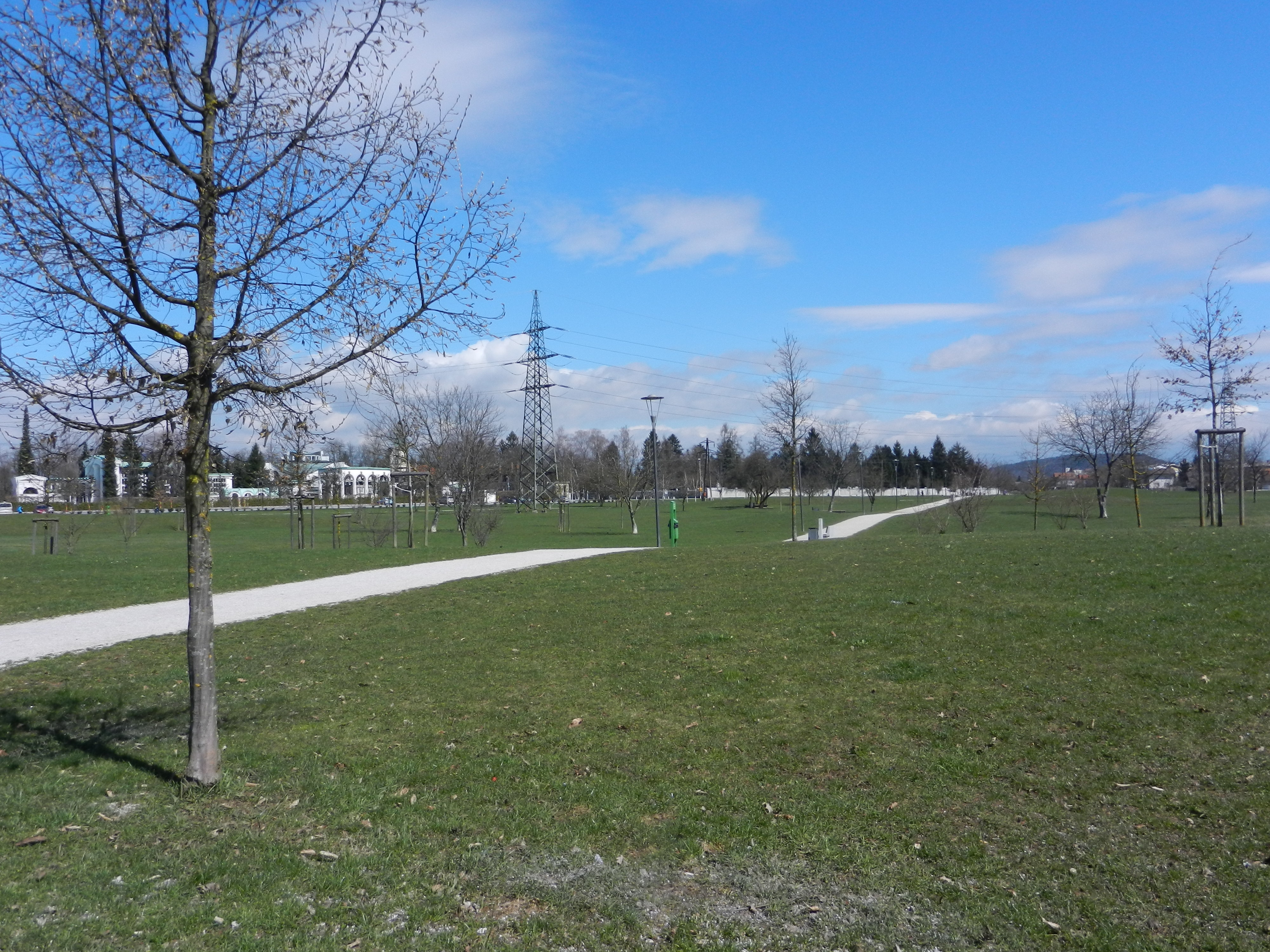 Park Šmartinska in Ljubljana